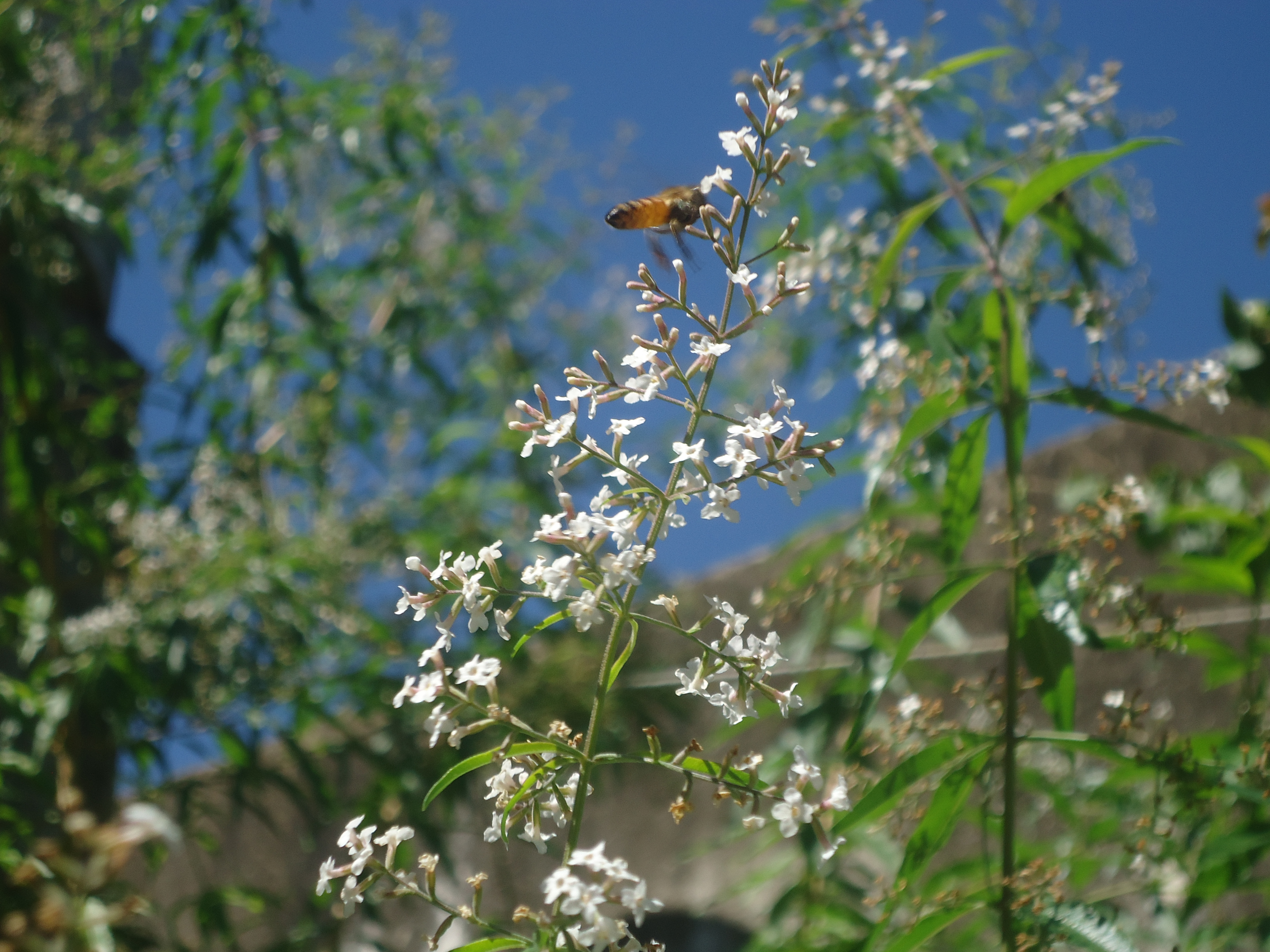 Apis mellifera ligustica collecting nectar from flowers of Aloysia citrodora. Photography token in Buenos Aires Province, Argentina.